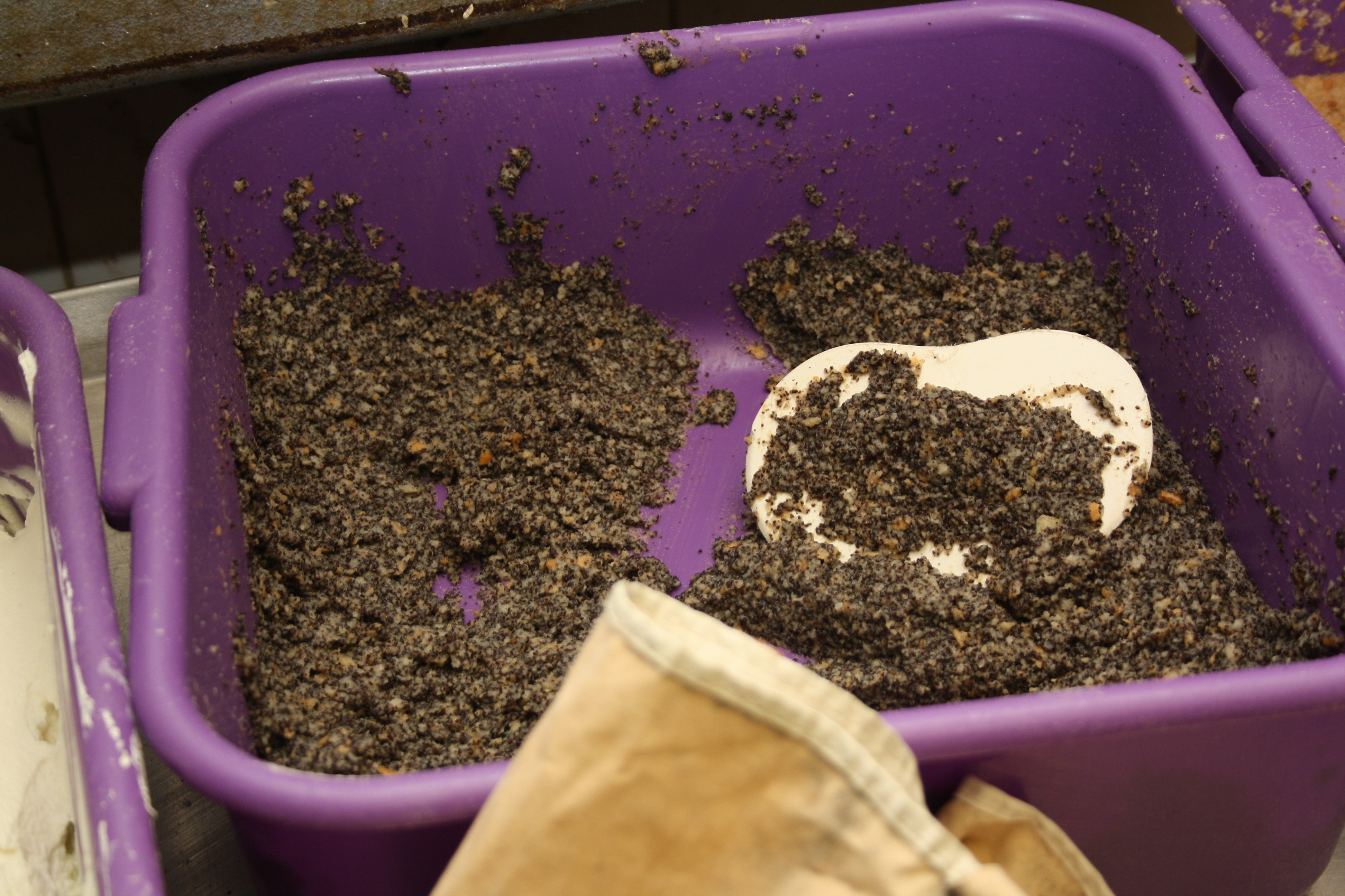 Production process of czech cake. This photograph was taken with a DSLR from WMCZ's Camera grant. This picture was taken and/or got within the scope of the 'Acquiring scientific and specialized pictures' grant.